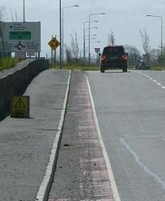 Debris on substandard (1m) cycle lane at semi-rural location where regular sweeping is absent. Location Parkmore, Galway, Ireland